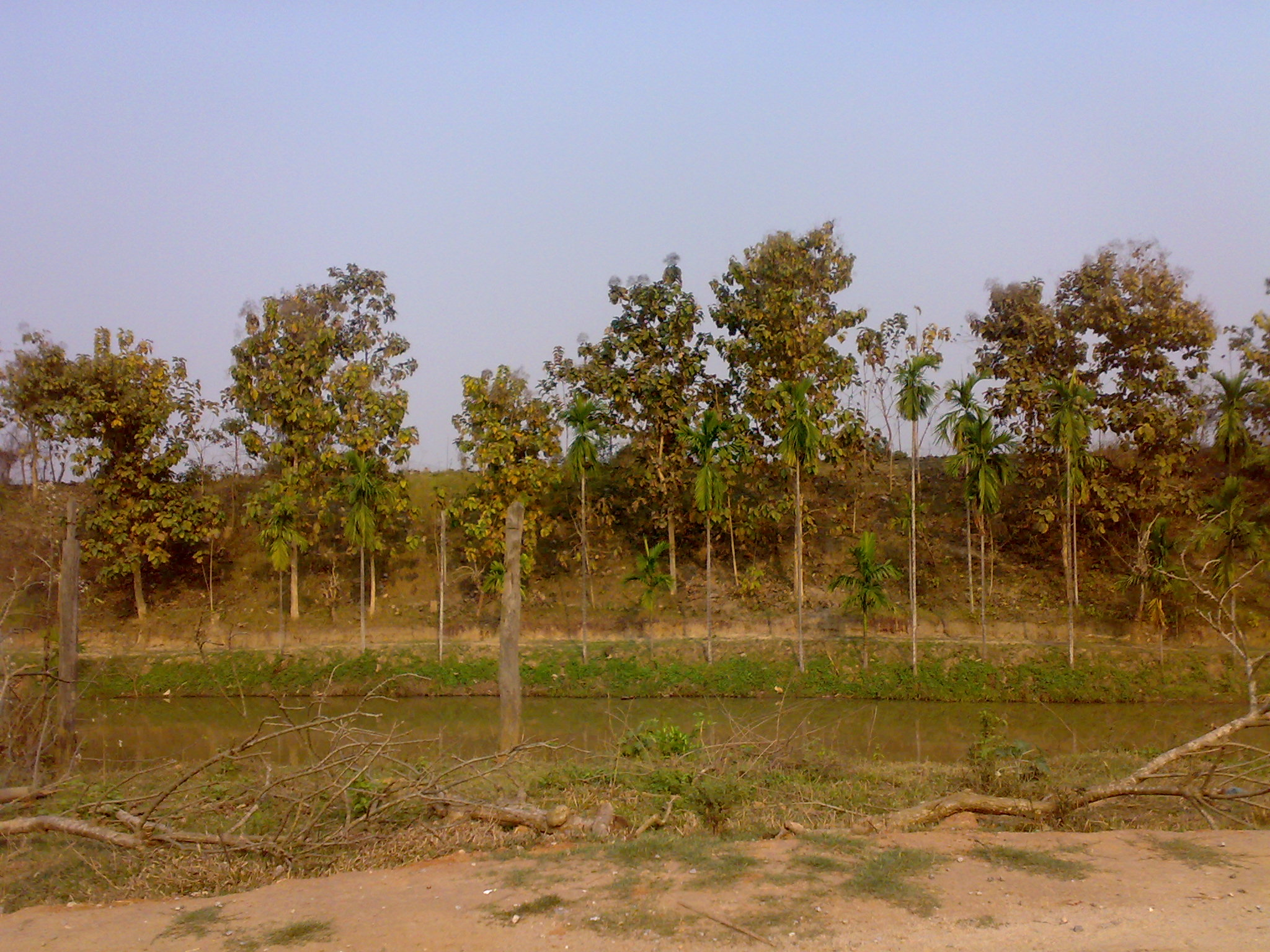 An Ahom era Fort (Garh in Assamese) constructed during Lachit Borphukan time.